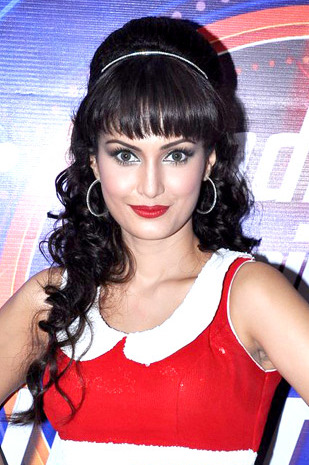 Nisha Rawal on the sets of India’s Dancing Superstar